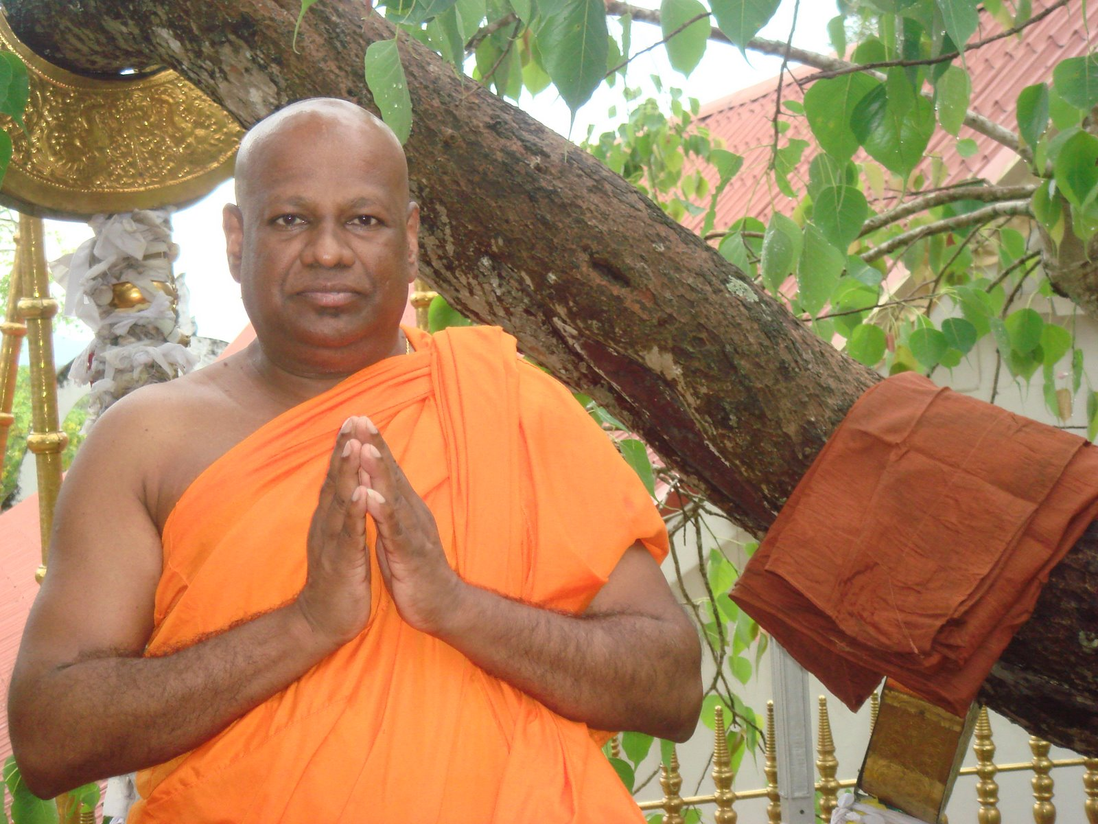 Ven.Dr. Bodagama Chandima, Founder of Theravada Samadhi Education Association, Taipei,Taiwan